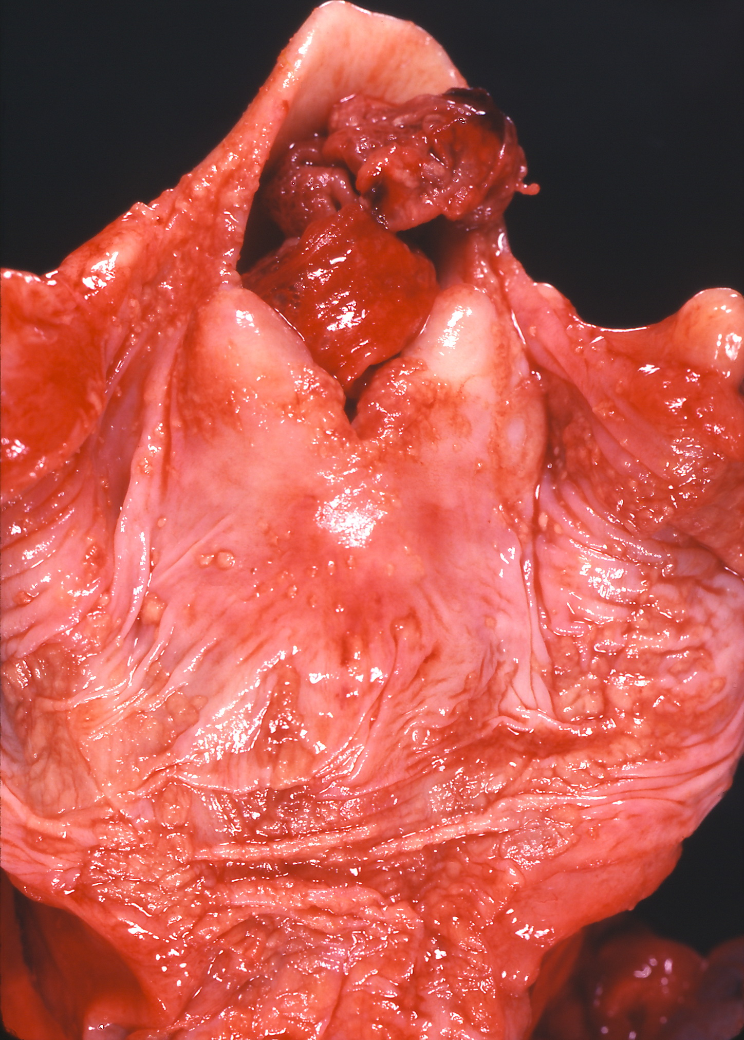 Complete laryngeal obstruction due to aspiration of a large meat fragment.